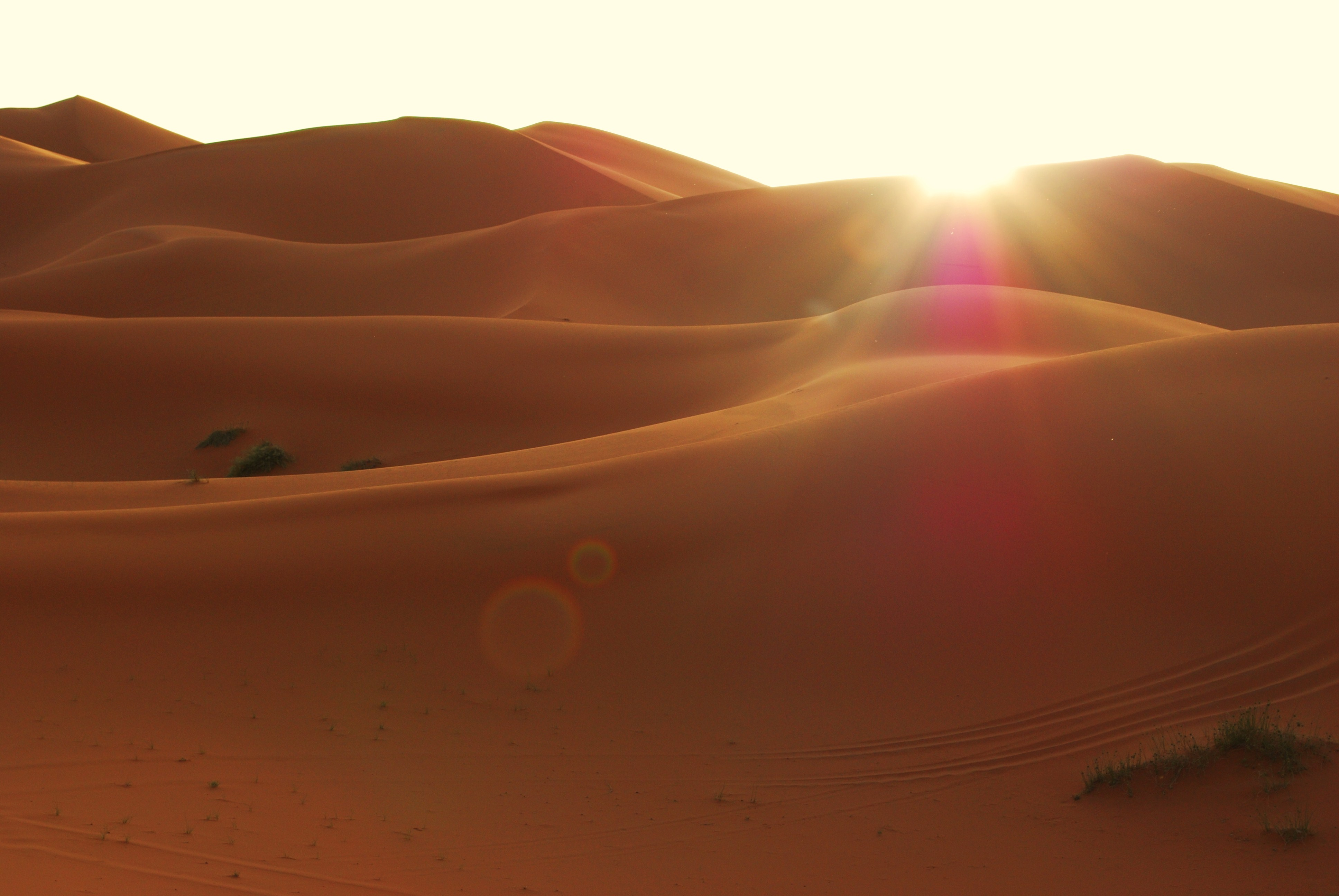 Sunrise - Dunes of Merzouga - Erg Chebbi